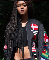 chynna in london